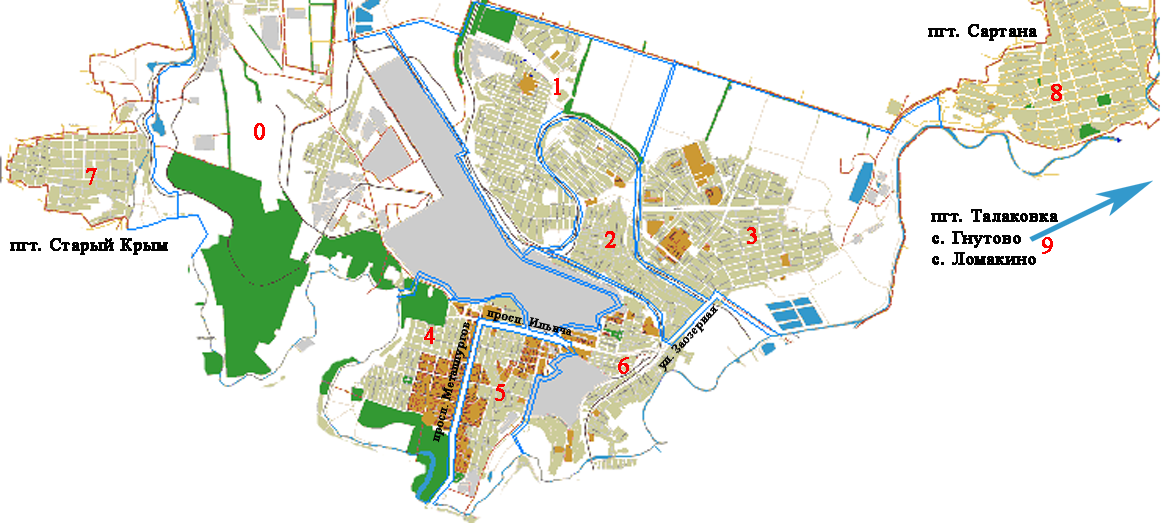 Map of Illich Raion of Mariupol City, Donetsk Oblast, Ukraine